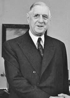 Der französische Staatspräsident Charles de Gaulle und Bundeskanzler Konrad Adenauer (cropped and reuploaded by Emiya1980)